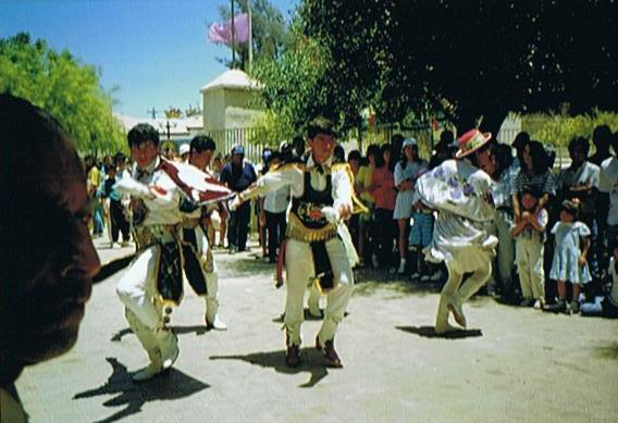 Indigenous dancers at the "fiesta grande" (Christmas), in honor of the miraculous image of the "Virgen del Rosario" (virgin of the rosary) at Andacollo, Provice of Coquimbo, Chile